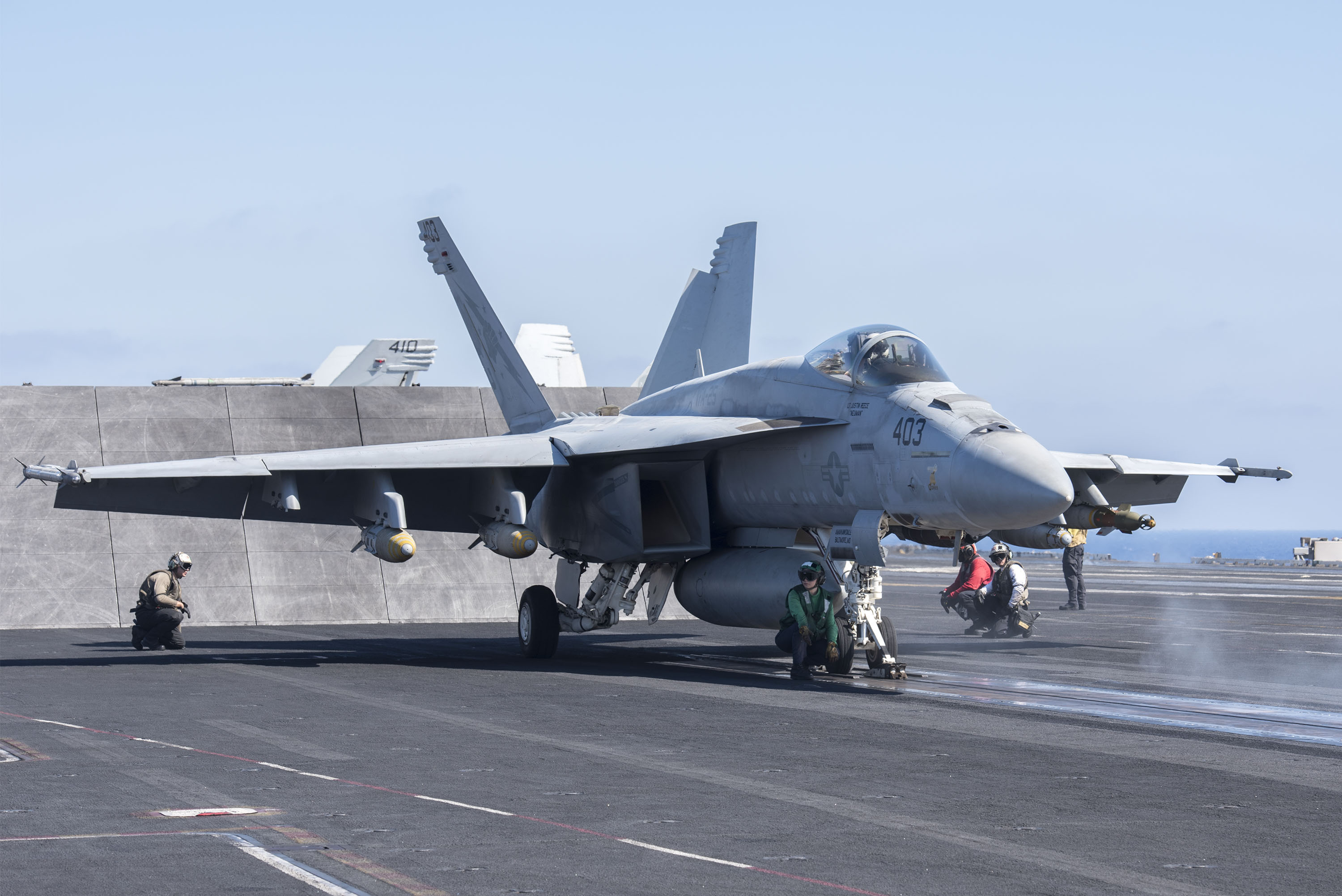 MEDITERRANEAN SEA (June 8, 2016) An F/A-18E Super Hornet assigned to the Fist of the Fleet of Strike Fighter Squadron (VFA) 25 prepares to launch from the flight deck of the aircraft carrier USS Harry S. Truman (CVN 75) June 8, 2016. The Harry S. Truman Carrier Strike Group is deployed in support of Operation Inherent Resolve, maritime security operations and theater security cooperation efforts in the U.S. 6th Fleet area of operations. (U.S. Navy photo by Mass Communication Specialist 3rd Class Bobby J. Siens/Released)160608-N-DZ642-045 Join the conversation: navylive.dodlive.mil